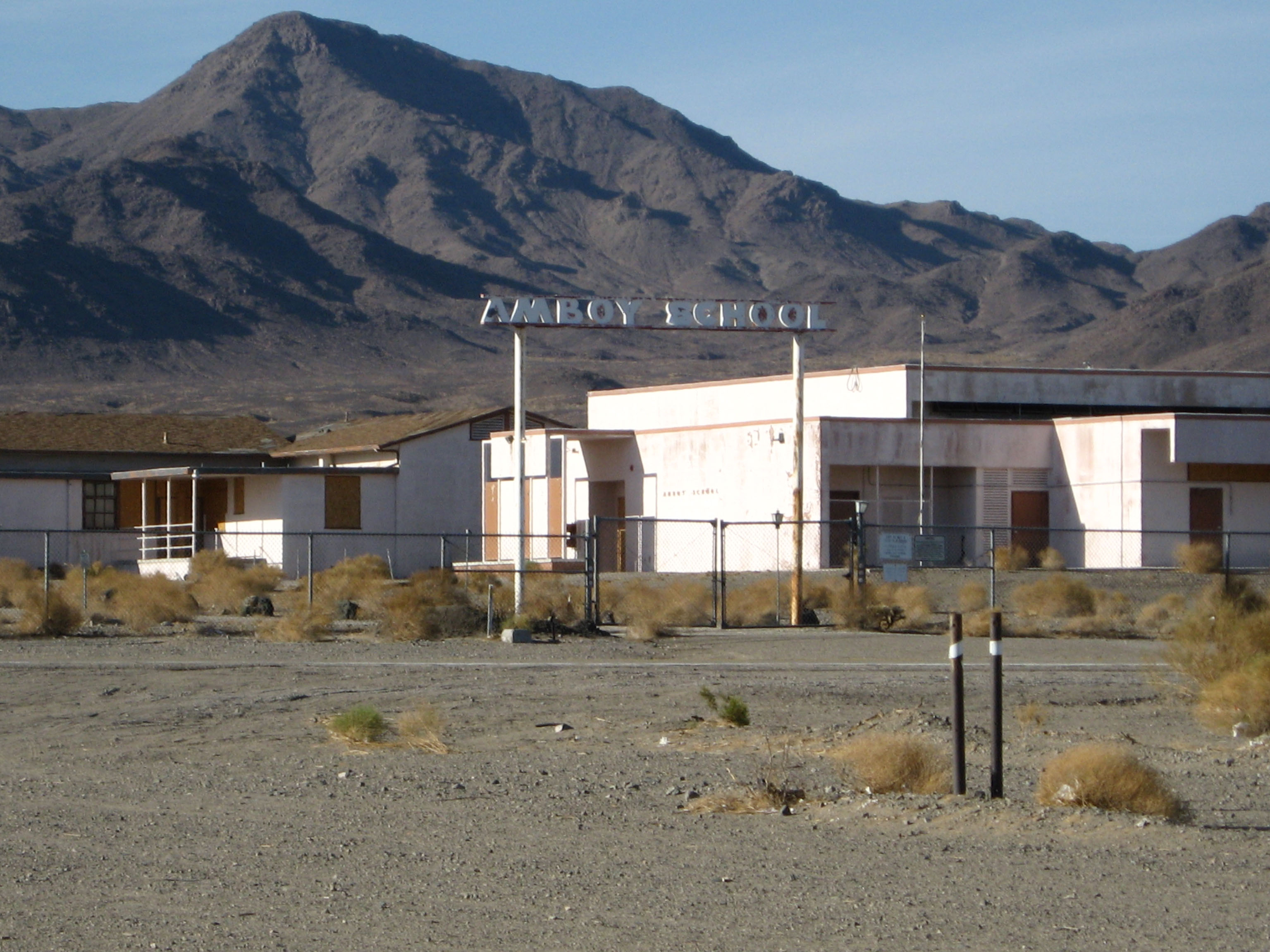 School in Amboy, California, 2006